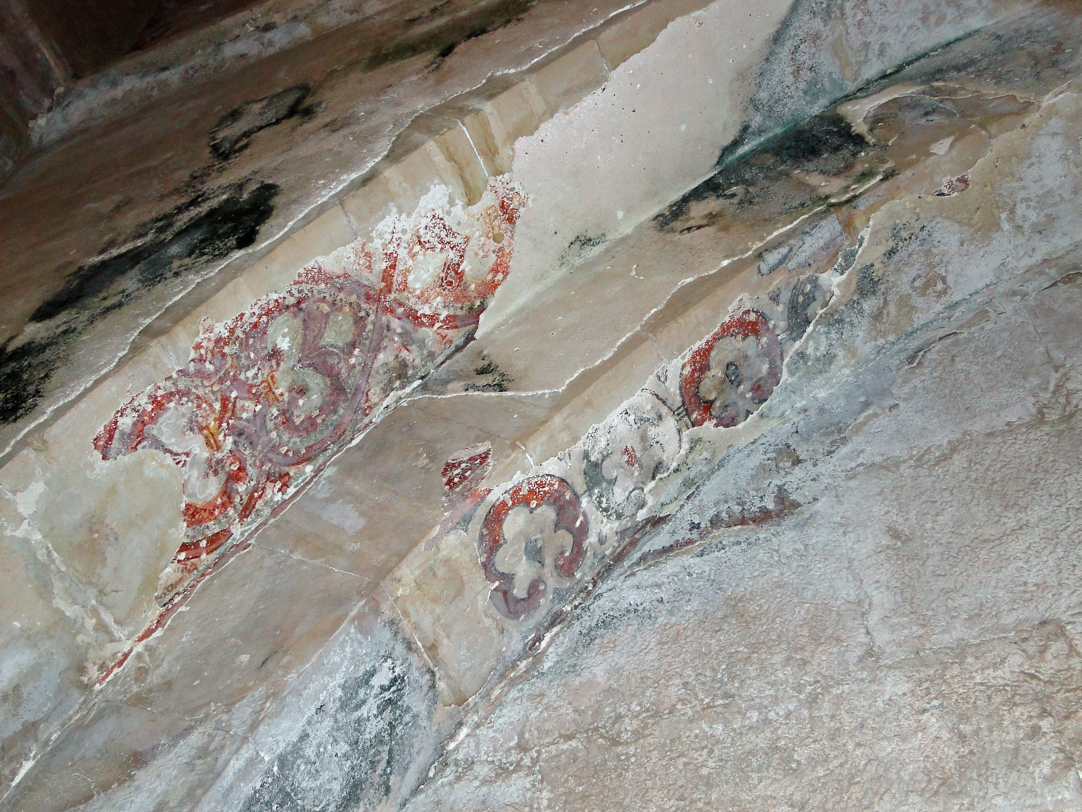 Frescos in the Chapel of the Krak des Chevaliers, Syria